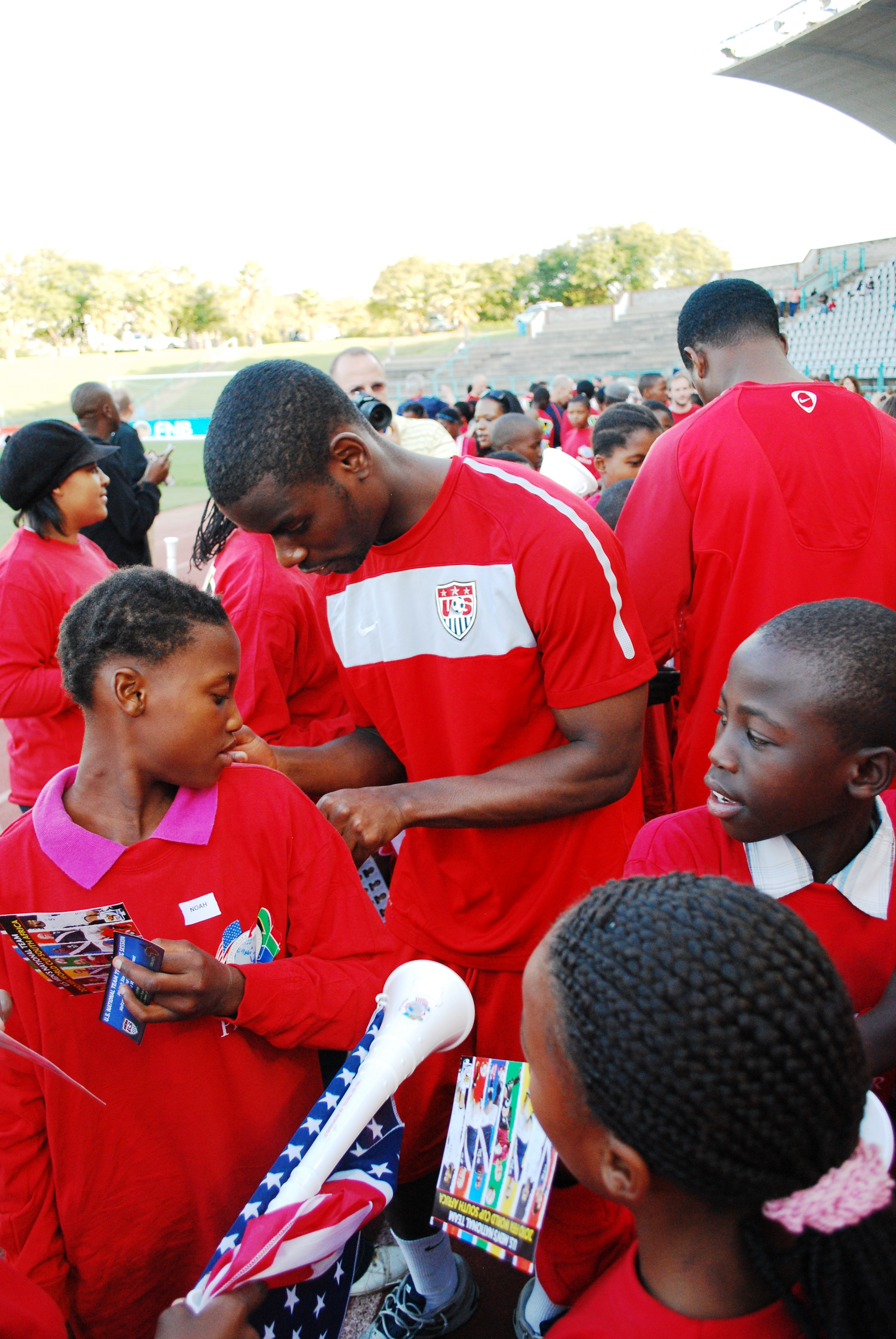 Maurice Edu signs autographs at the U.S. National Soccer Team's open practice session with South African students and U.S. Mission to South Africa families at the Pliditch Stadium in Pretoria, South Africa, on June 6, 2010. The U.S. National Soccer Team is preparing for the 2010 World Cup in South Africa. [State Department Photo/Public Domain]